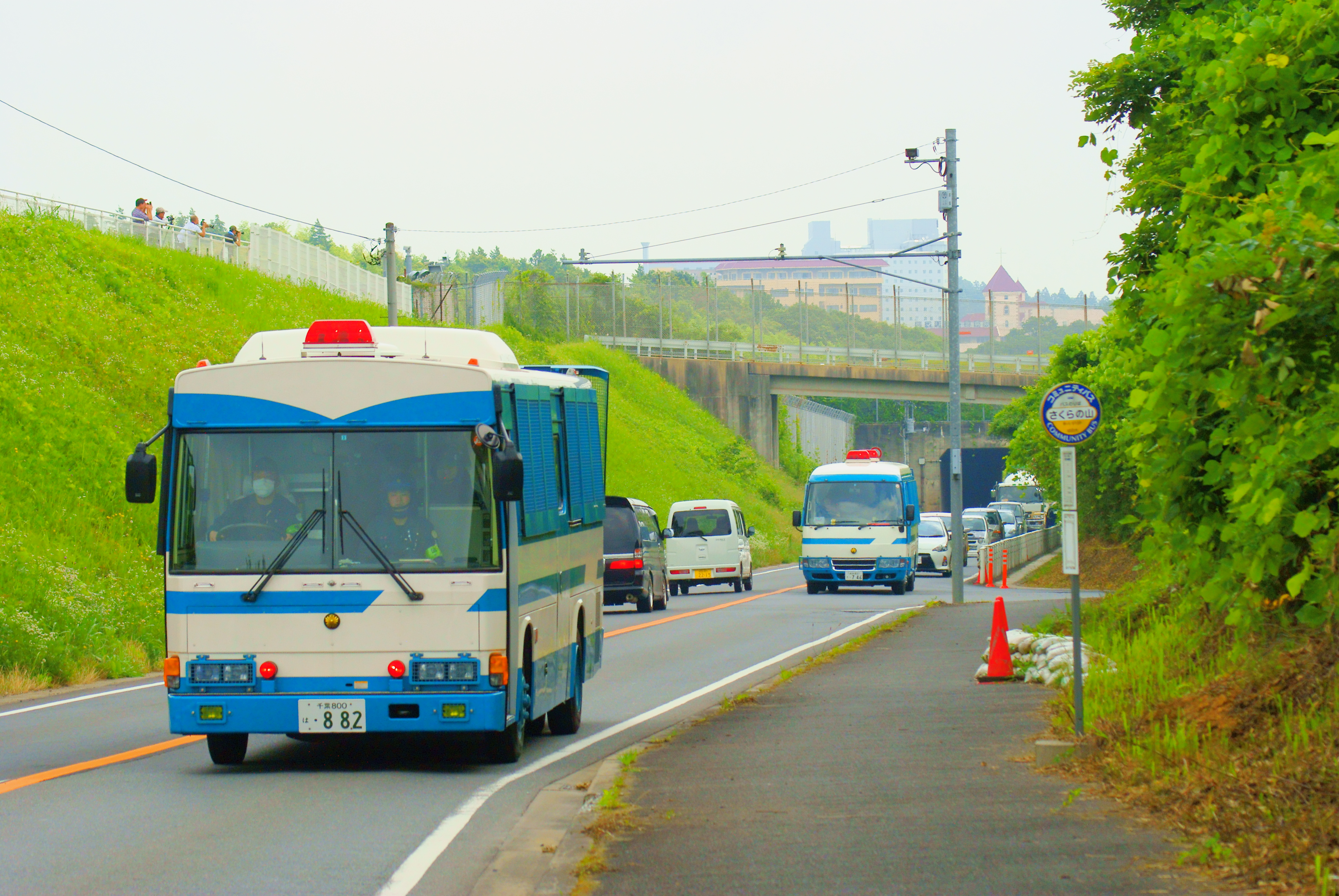 Riot squad vehicles ware patroling the outskirts of Tokyo Narita Airport